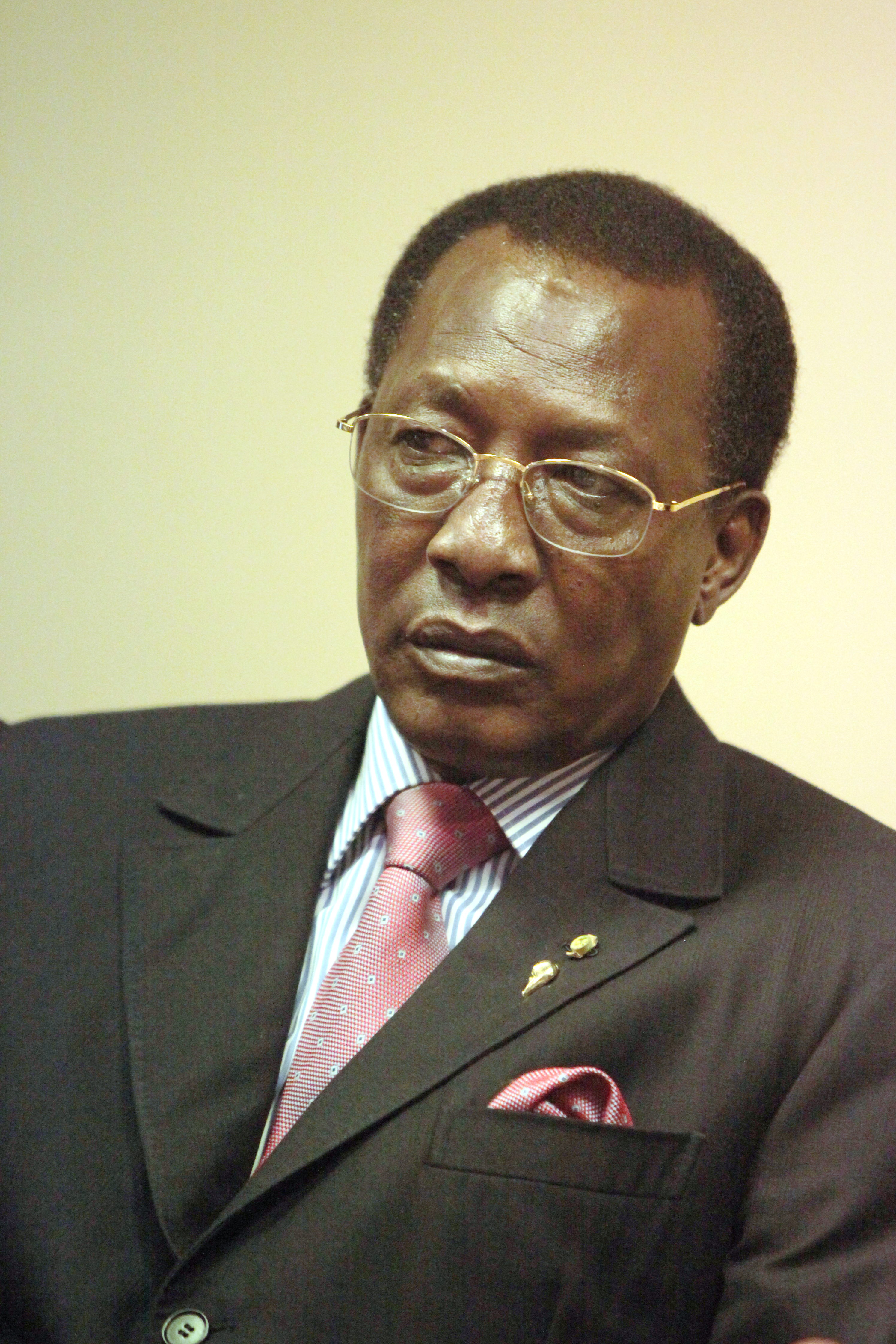 Idriss Déby at the 6th World Water Forum